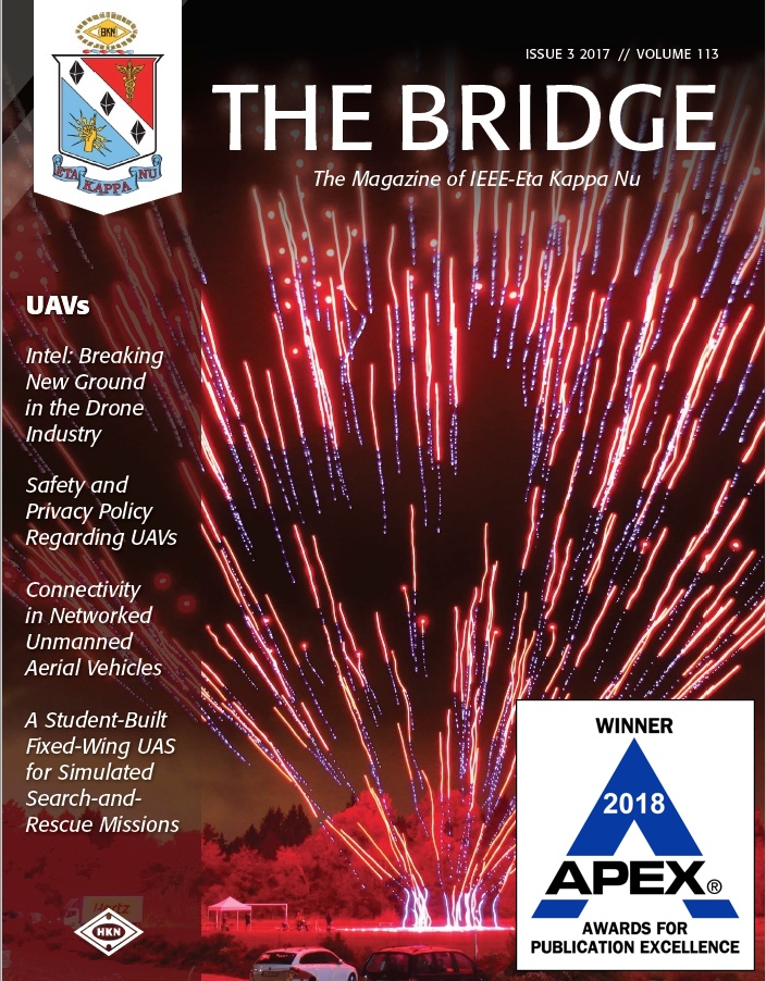 Cover for issue 113(3), 2017 of The Bridge magazine of IEEE-HKN. This cover was recognized with 2018 APEX Award. It show a drone light show from Intel.